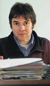 Marc Verhaegen is a cartoonist who is interested in social issues.